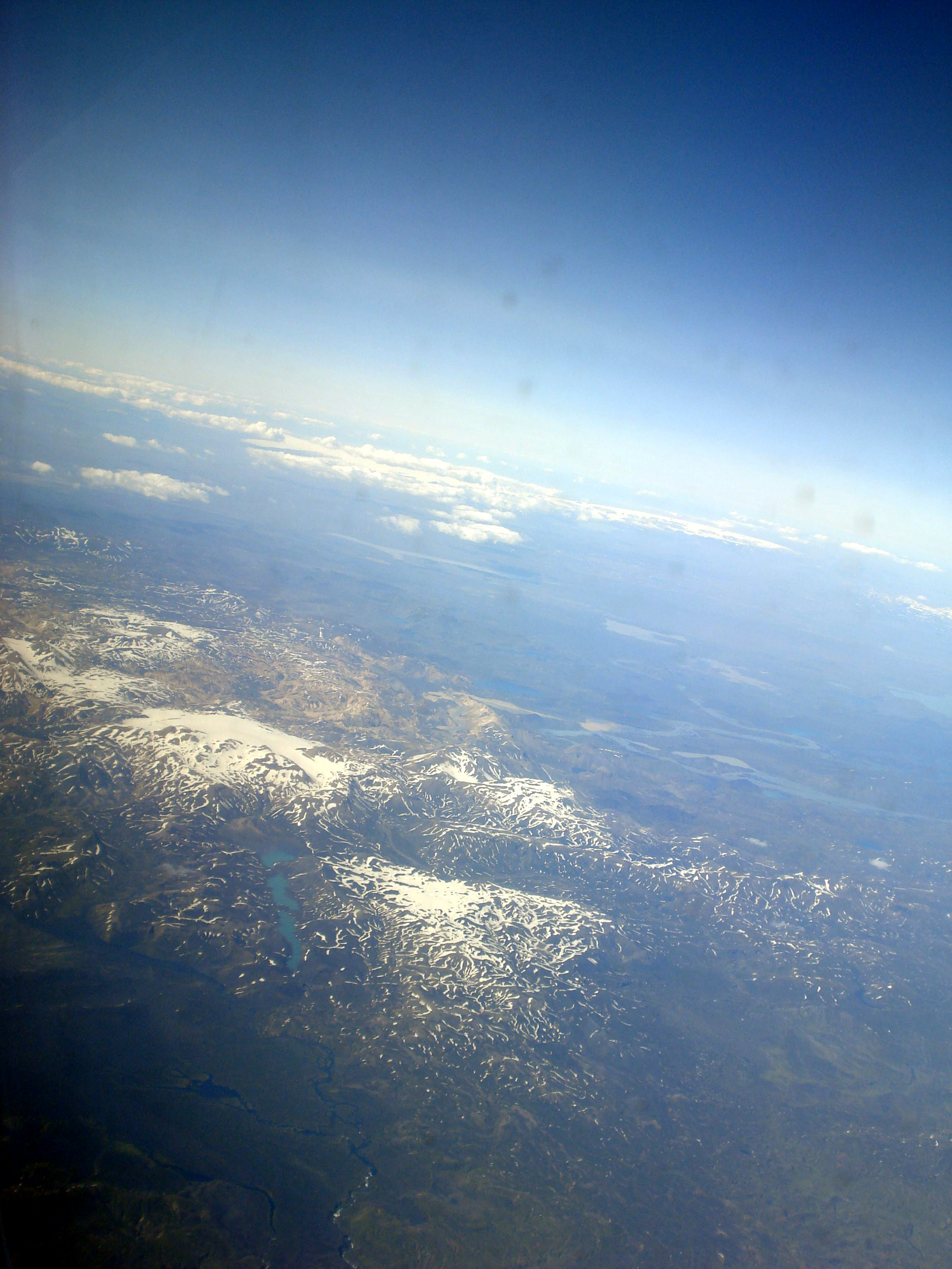 Landmannalaugar in Iceland